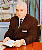 Dominick V. Daniels, US Representative from New Jersey